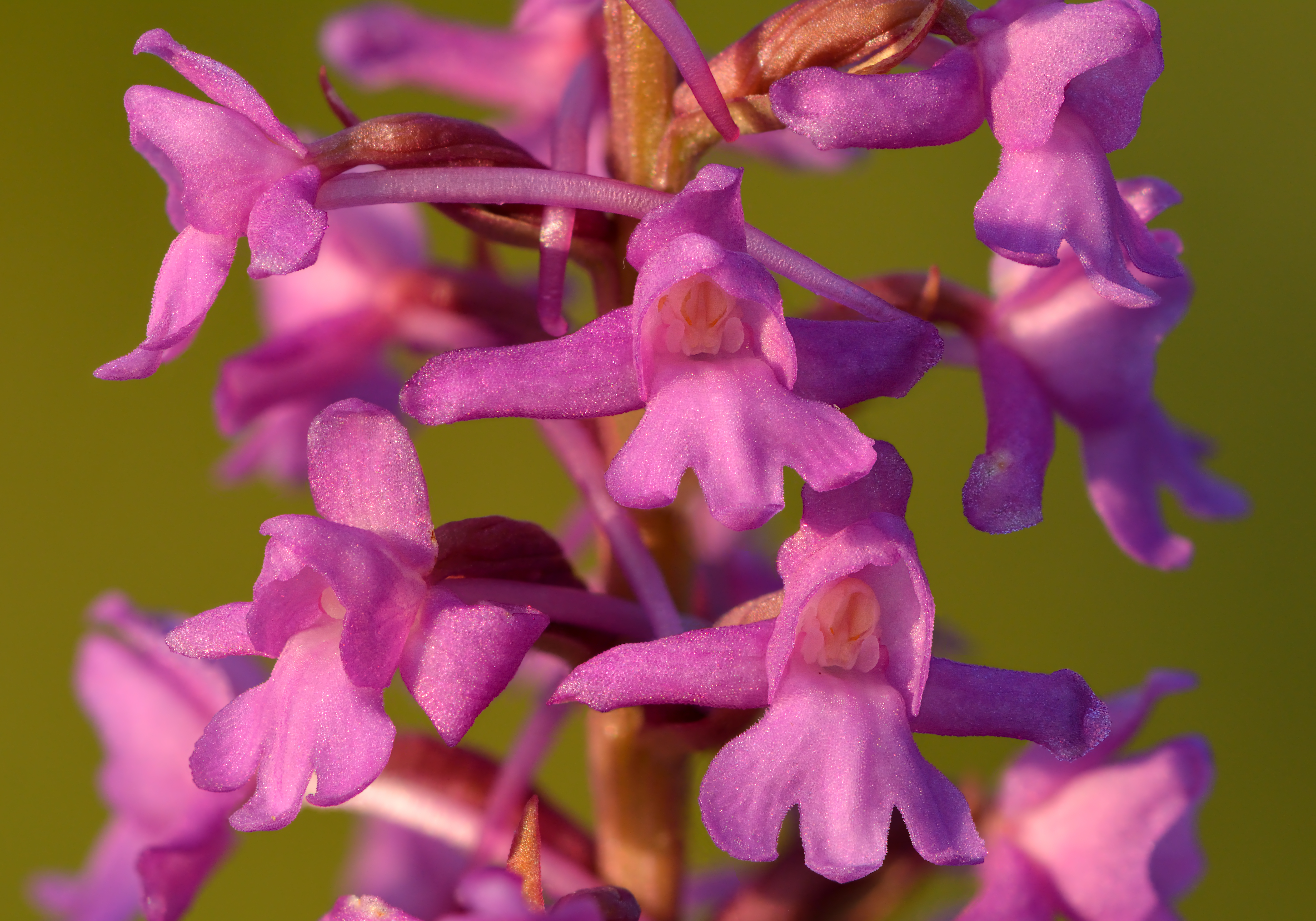 Marsh fragrant-orchid. Flower size (width × height) ca 12×9 mm.